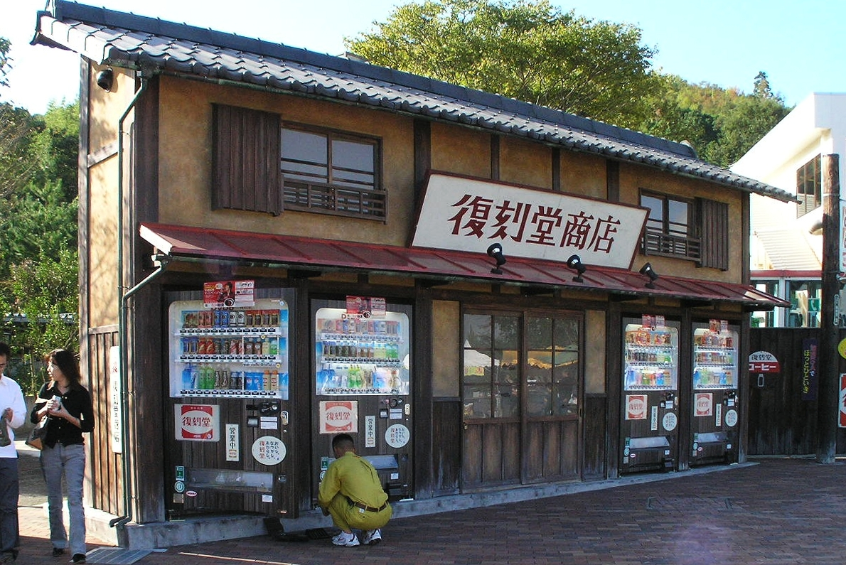 daido-hukkokudo